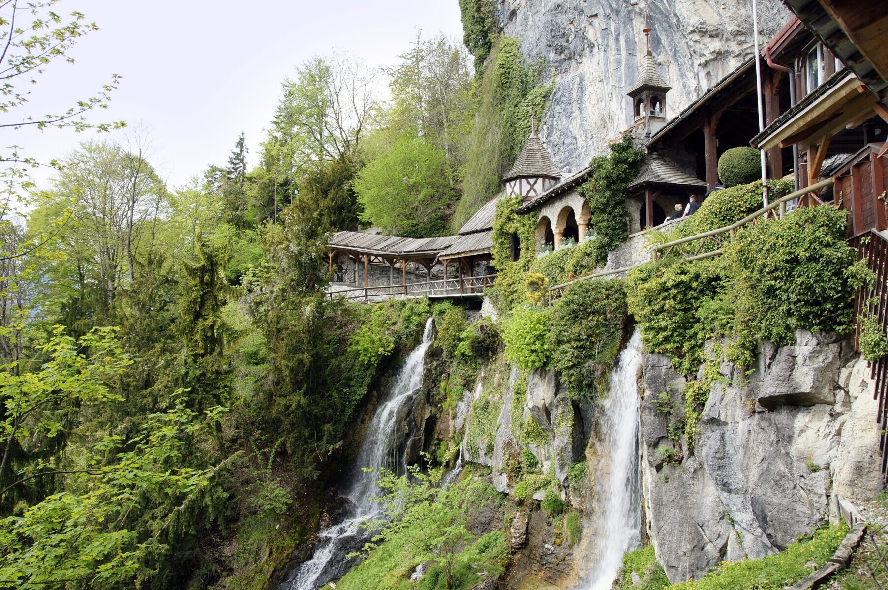 Entrance to St. Beatus caves near Interlaken, Switzerland